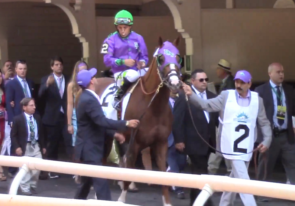 California Chrome leaving the saddling paddock for the 2014 Belmont Stakes with Victor Espinoza up, groom Raul Rodriguez at right (wearing #2), Alan Sherman between Rodriguez and the horse, Willie Delgado at left in purple cap